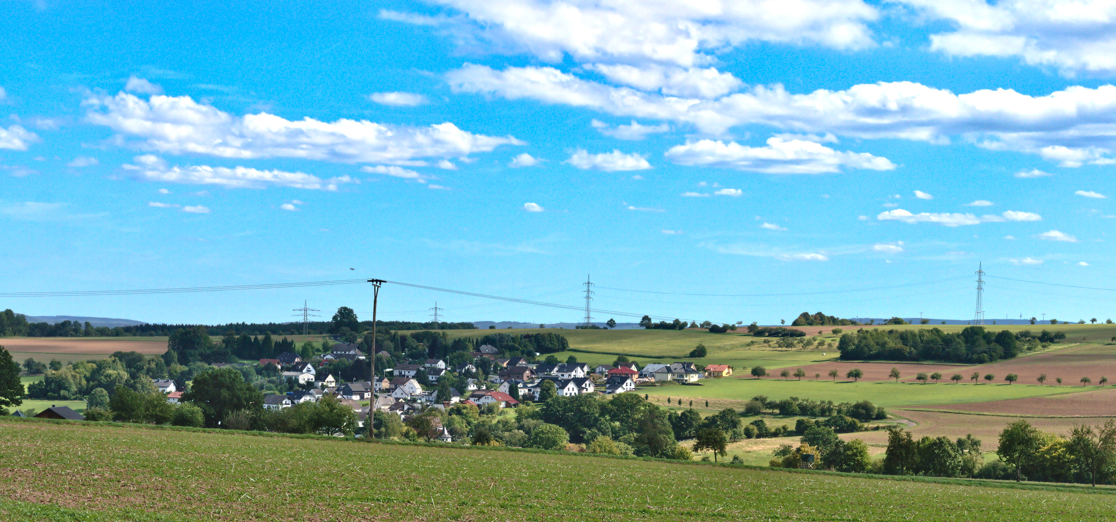 View over Niederhofen village. Seen from northwest. Location: Landkreis Neuwied, Germany